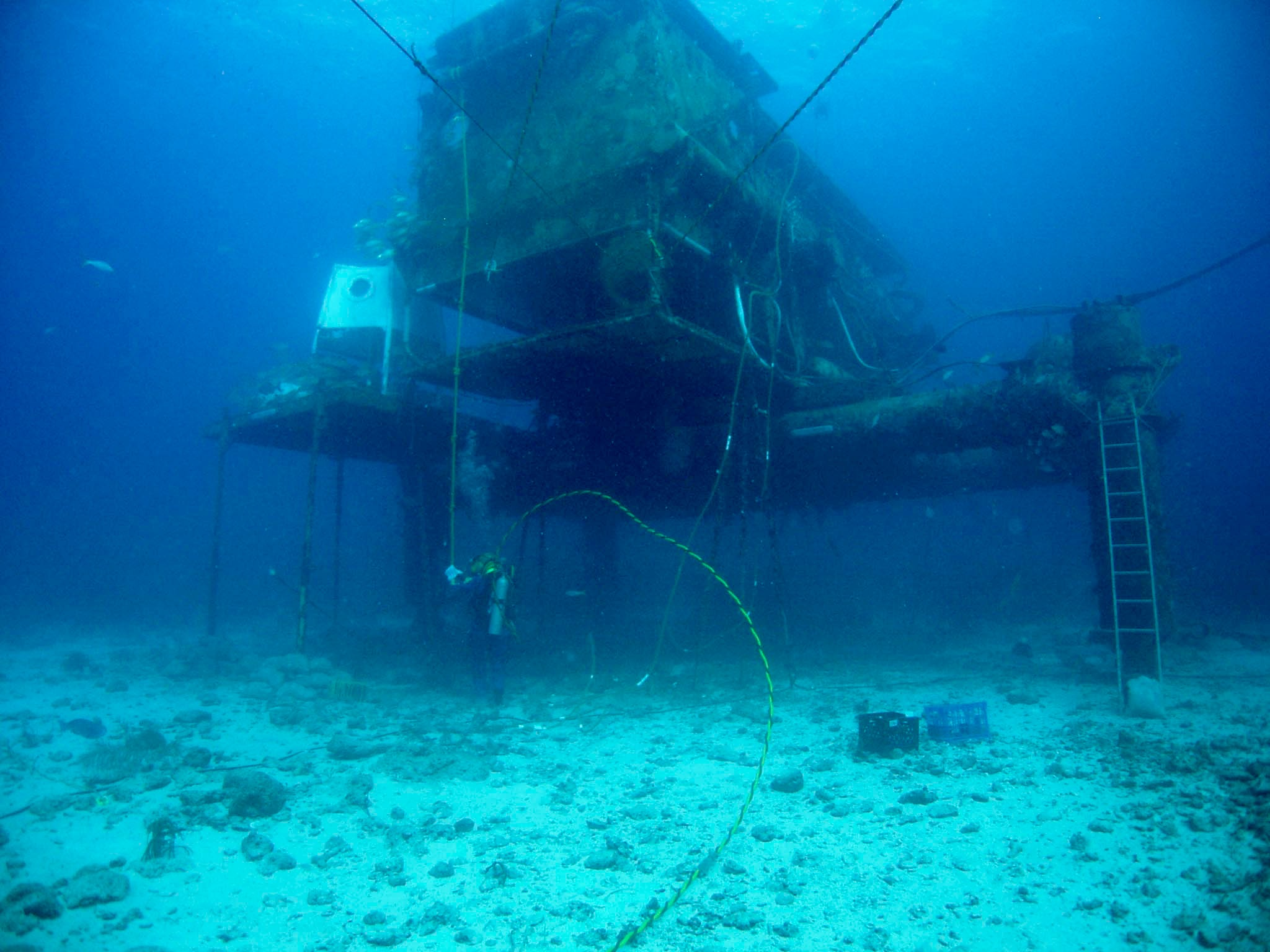 NEEMO 11 crewmember works outside the undersea habitat "Aquarius" during a session of extravehicular activity (EVA) for the NASA Extreme Environment Mission Operations (NEEMO) project.